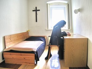 A Discalced Carmelite nun sits in her cell, praying, meditating on the Bible.